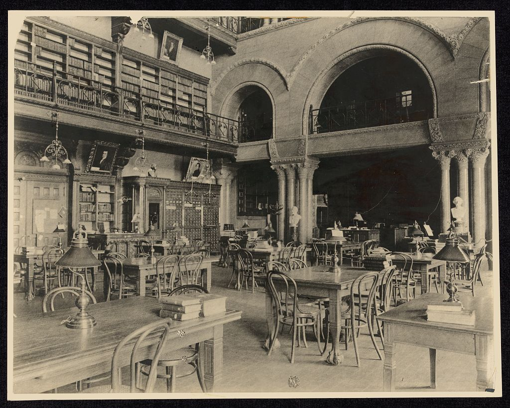 New York State Library--Facilities--1880-1900.